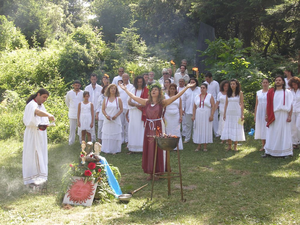 Hellen ritual performed by members of the YSEE, Supreme Council of Ethnikoi Hellenes.